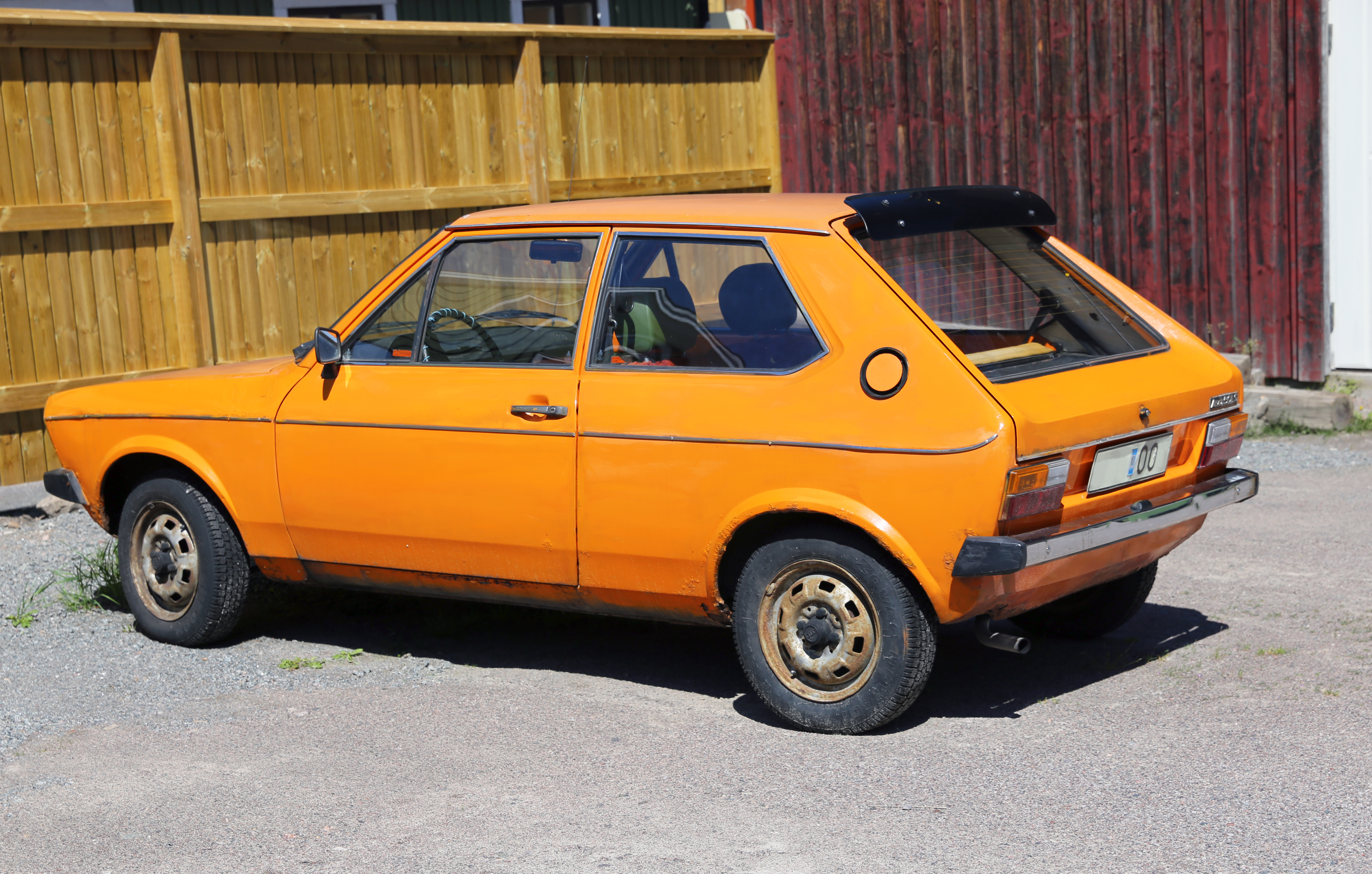 Looks like it was painted with a brush. Sort of hides the rust... Chassis number 8651519797, 1093cc 50PS engine.